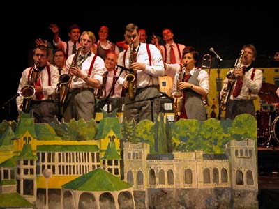 Phontrattarne_GrandShow05.jpg Picture taken 2005-05-21 Author: Phontrattarne Source URL